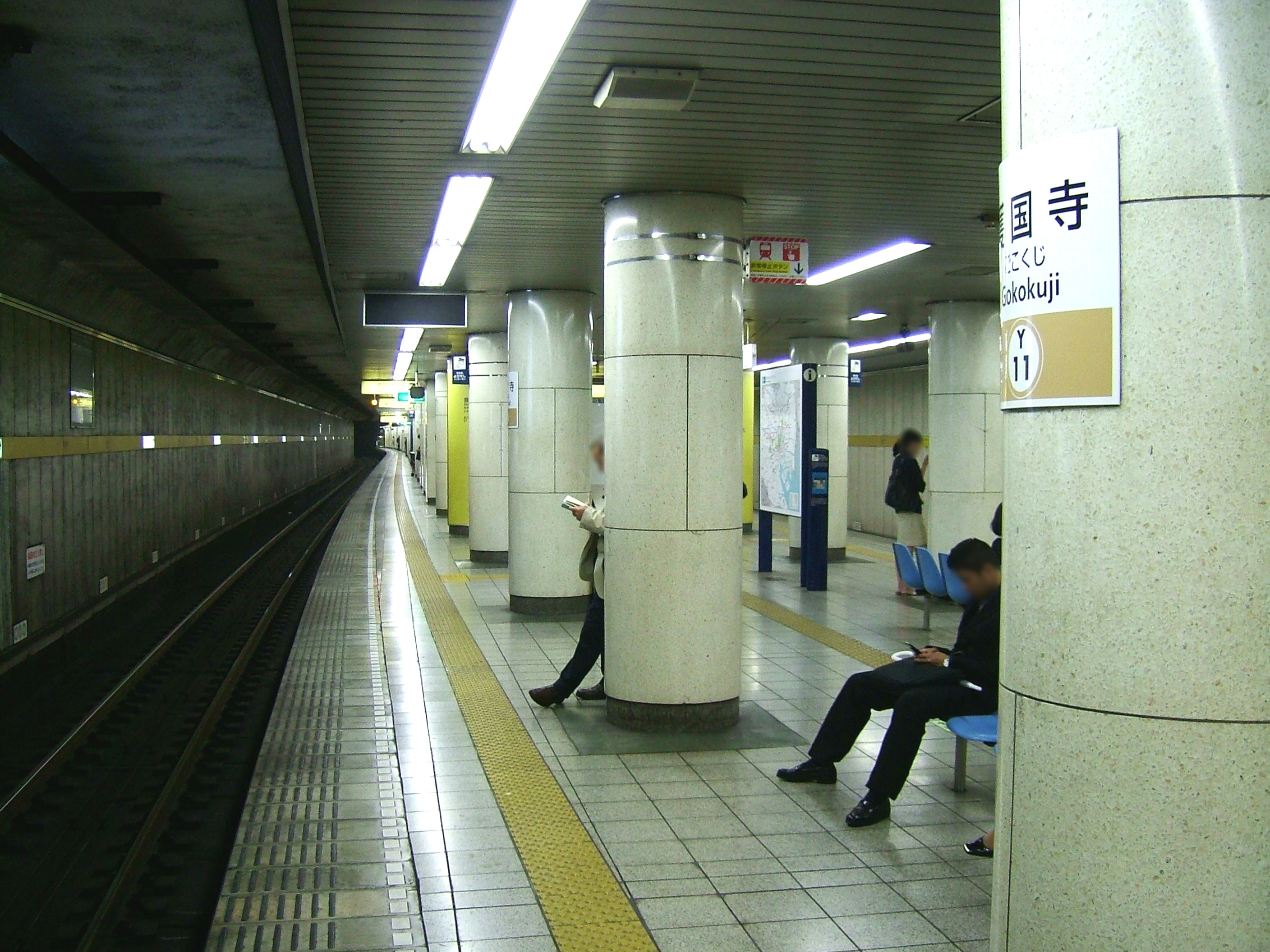 Gokokuji Station platform (Tokyo Metro Yūrakuchō Line)